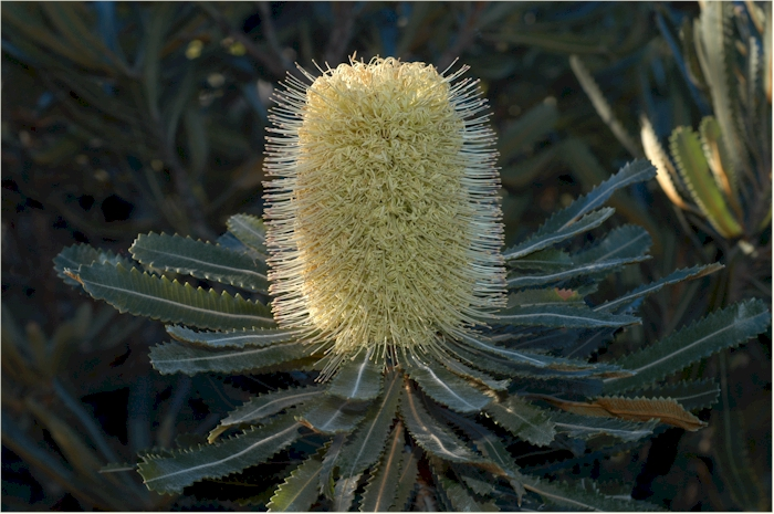 Banksia aemula in the Bombi Moors Bouddi National Park